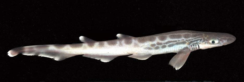 Galeus melastomus photographed by Pierluigi Angioi.